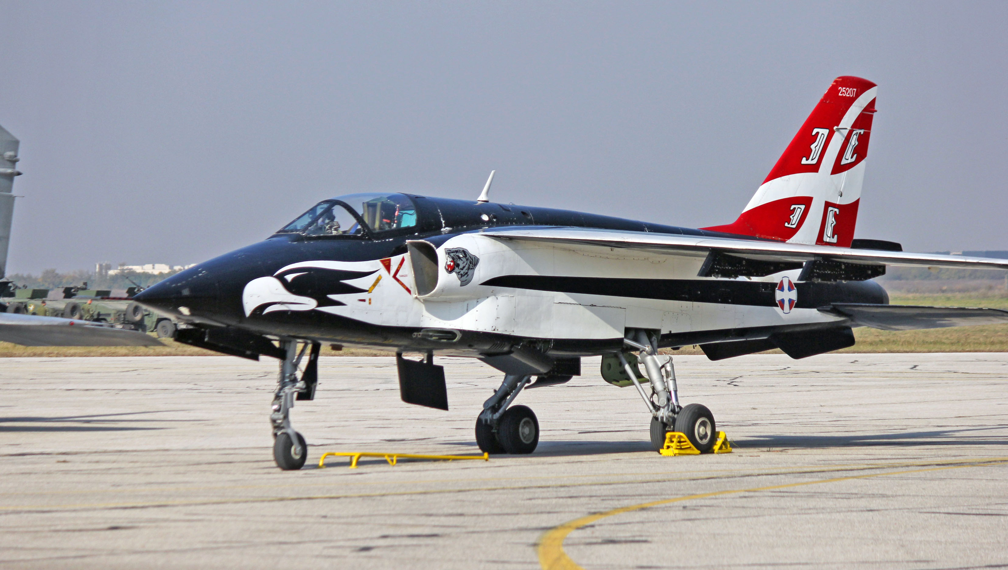 Serbian Air Force Ј-22 Оrao ground-attack aircraft on display during Sloboda 2019 military parade and exercise at "Colonel-pilot Milenko Pavlović" military airport.